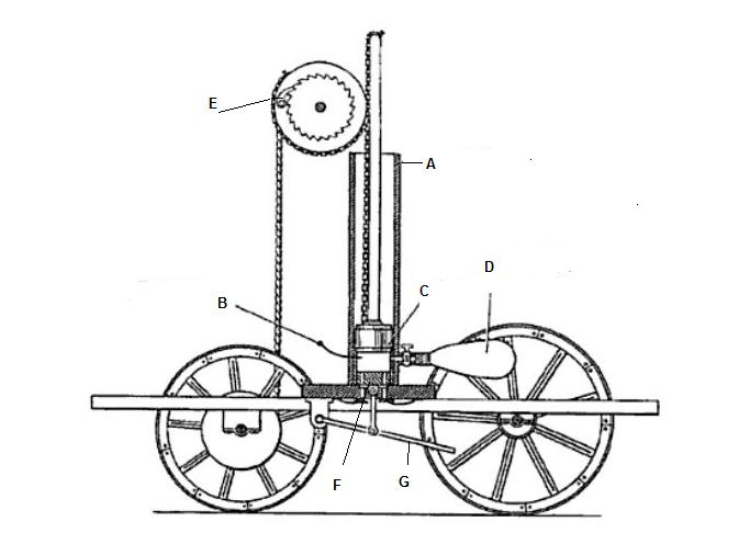 Uploaded from Eckermann, Erik (2001). World history of the automobile. SAE. pp. 18 - 19. ISBN 076800800X. This is a reproduction from the 1804 patent. Annotation my own. The first use of an internal combustion engine to power a car. The first use of spark ignition in an internal combustion engine. The first use of hydrogen as a fuel in an engine.